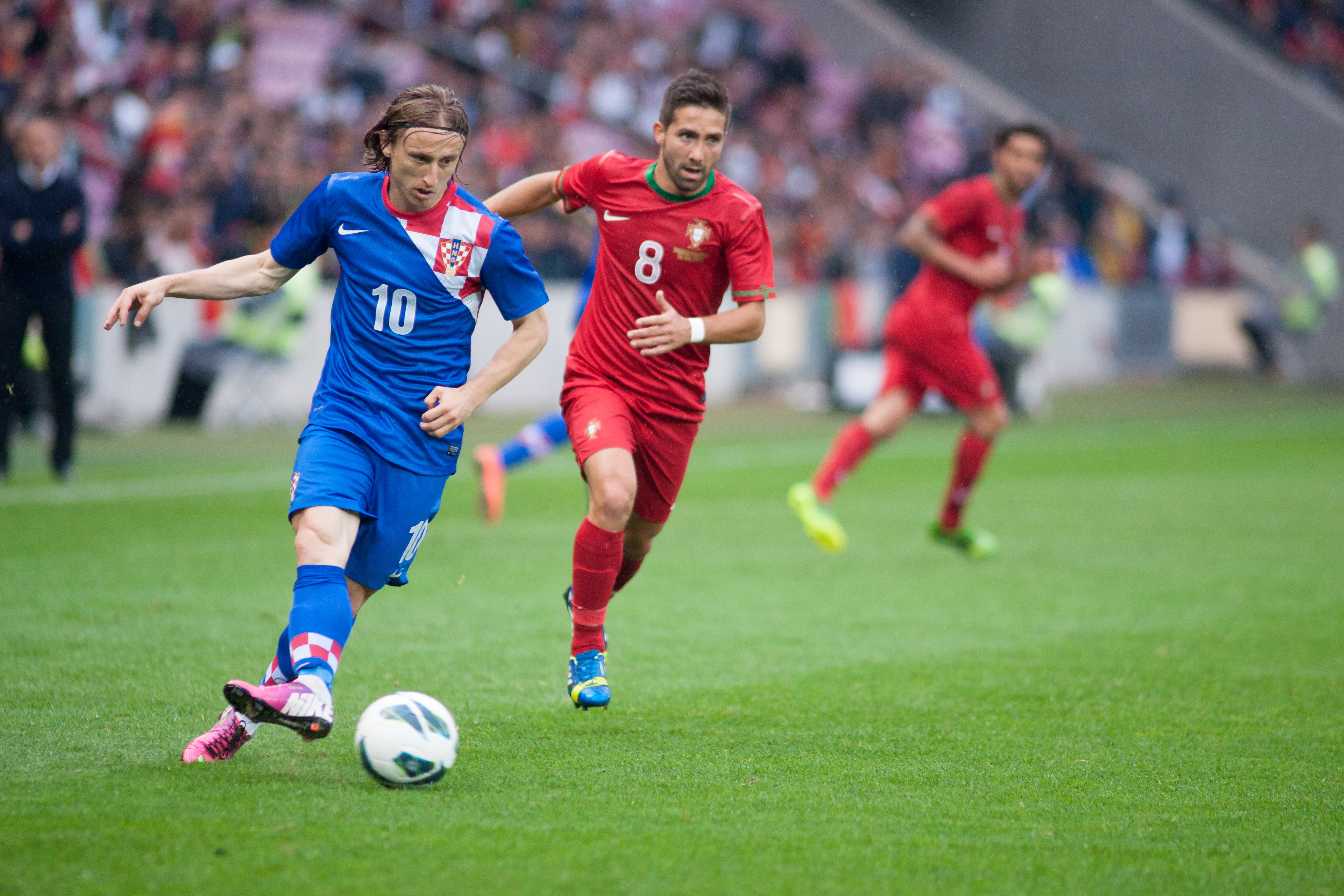 Croatia vs. Portugal, 10th June 2013